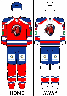 Lev Praha uniforms for 2012/2013 KHL season.